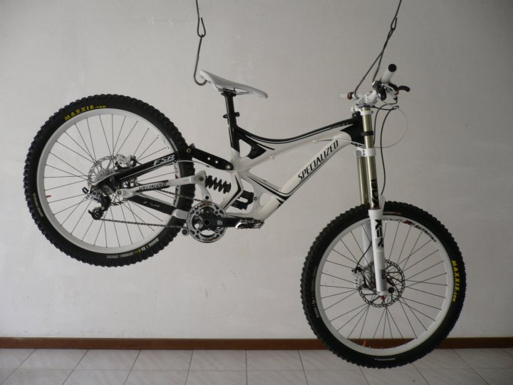 Specialized Demo 8 I 2010